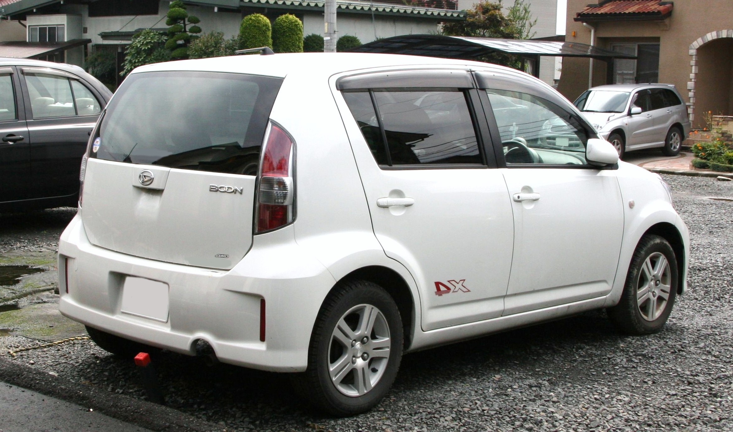 Daihatsu Boon X4